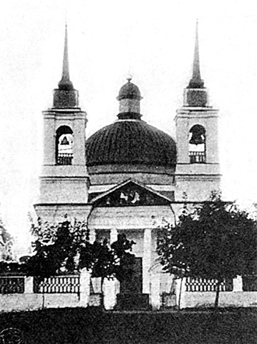 Non existent greek catholic church of the Birth of the Virgin in Čačersk